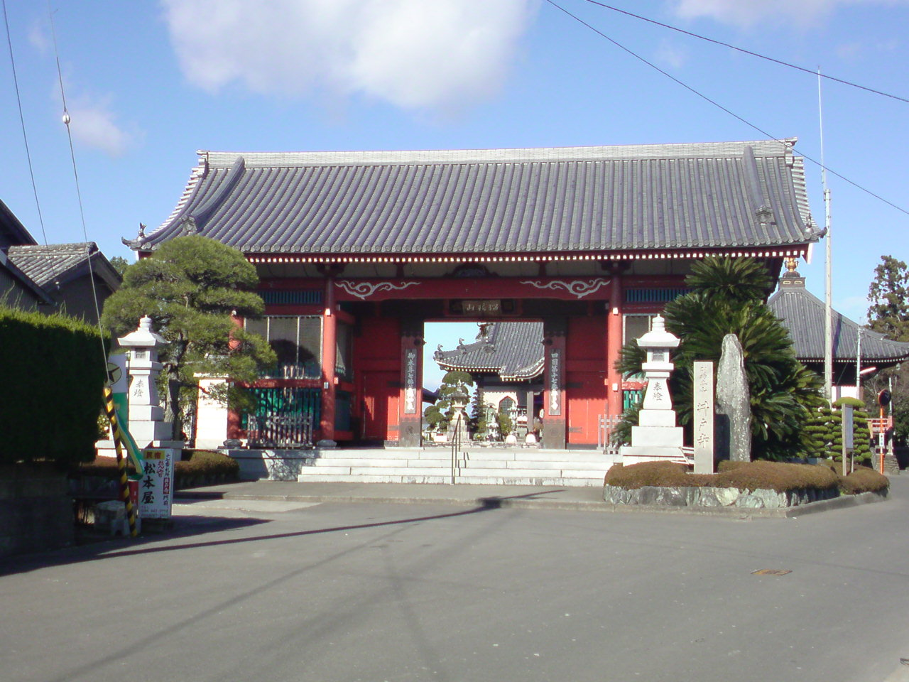 Nio-mon (Nio gate, 仁王門) of Idoji Temple (井戸寺), Tokushima City, Tokushima Pref., Japan